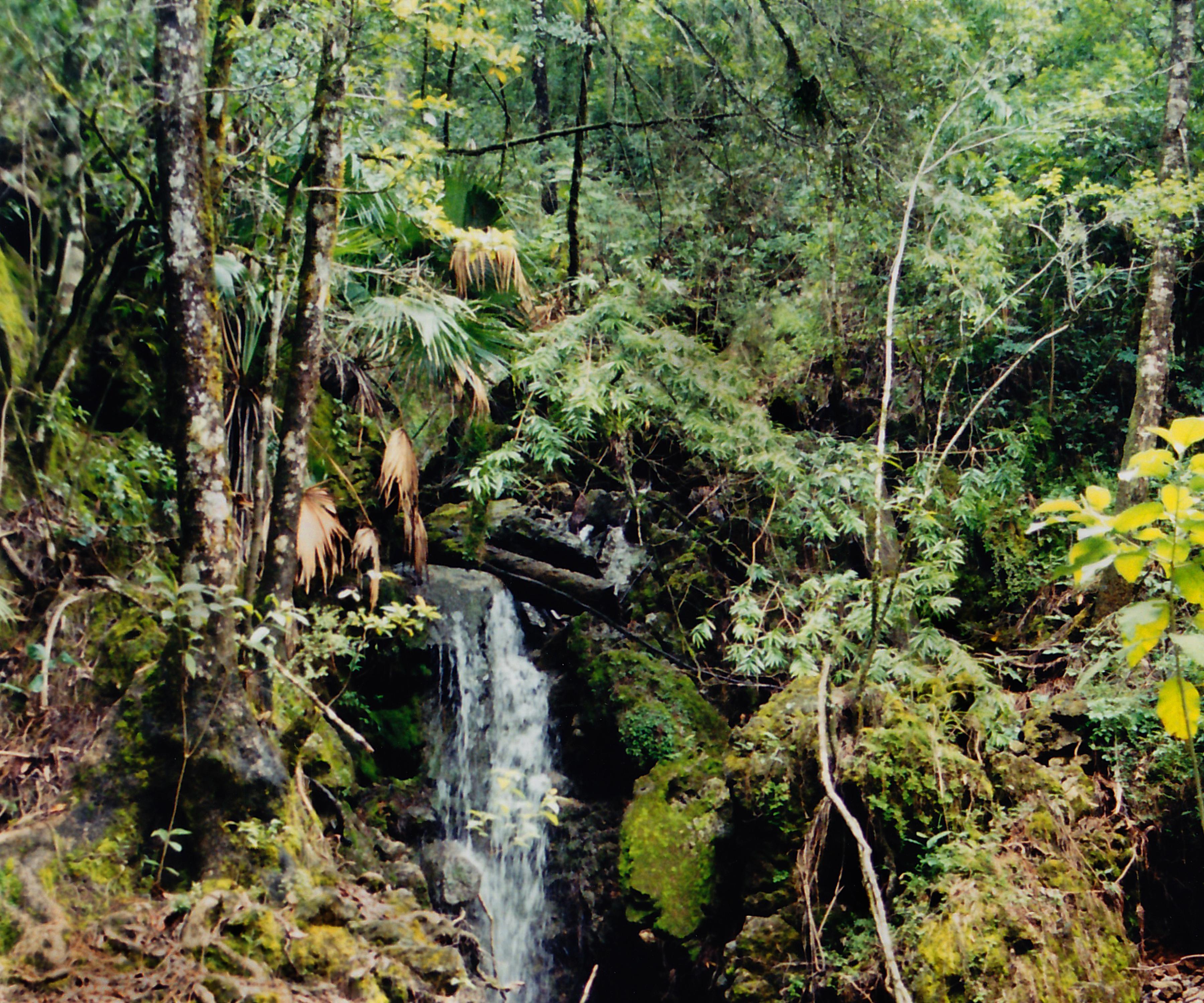 Lush cloud forest vegetation and waterfall near San Jose in El Cielo Biosphere Reserve (ca. 23.0520°N, 99.2350°W, 1485 m. elev.). Photographed on 12 August 2004 by William L. Farr. This image was originally photographed with film and later scanned from a print. [24 September 2003 in error]